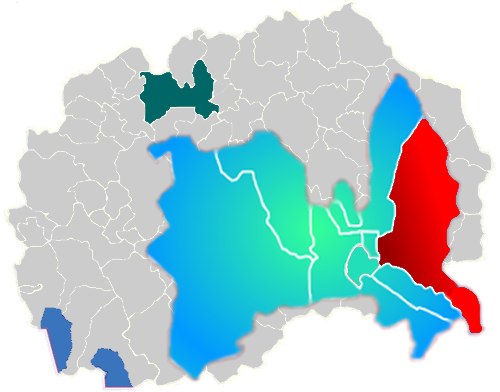 Map of Gazi Baba municipality.